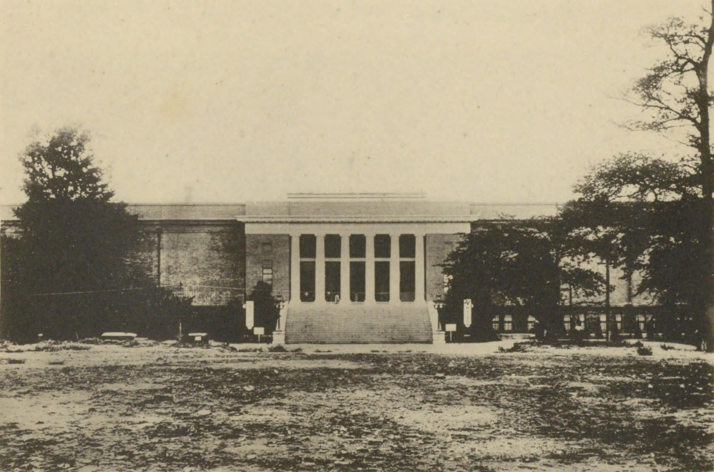 The building of Tokyo Prefectural Art Museum (later Tokyo Metropolitan Art Museum) by Okada Shin'ichiro. Built in 1926 and destroyed in 1977.